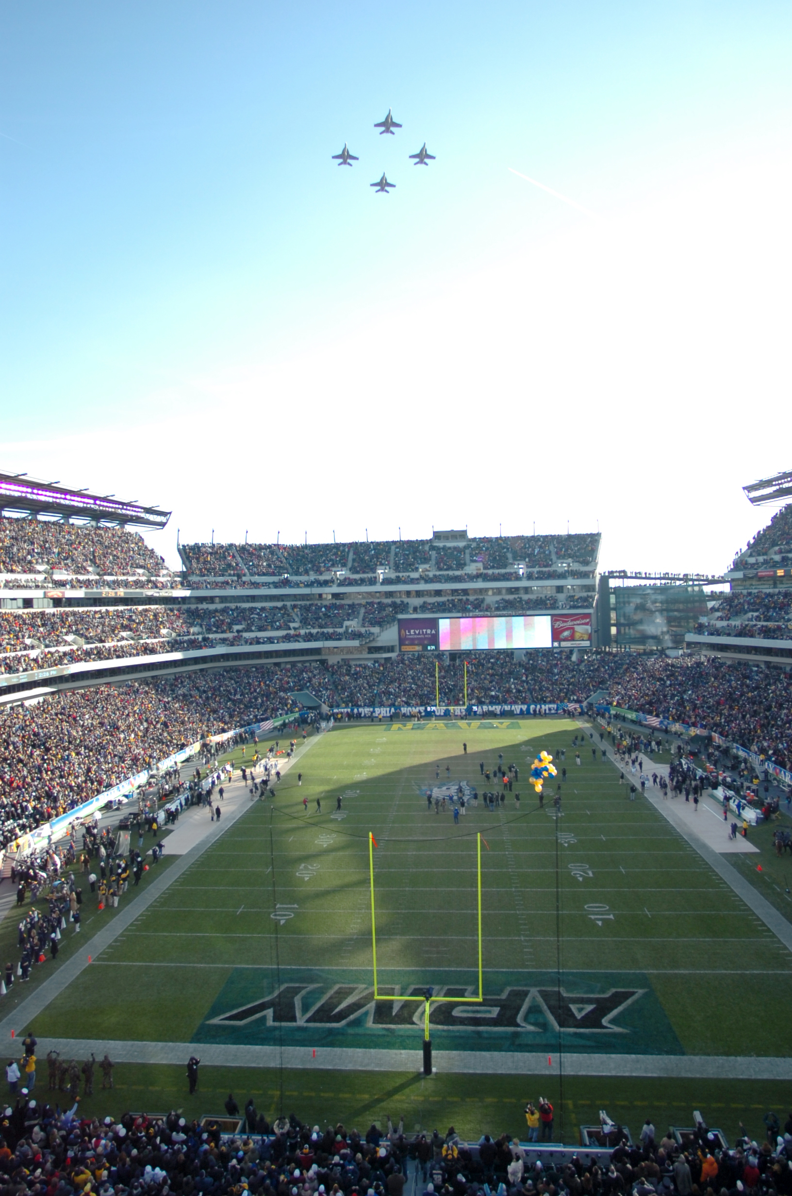 Four Navy F/A-18F Super Hornets from the Checkmates of Strike Fighter Squadron Two One One (VFA-211) conduct a fly-over during opening ceremonies for the 106th Army vs. Navy Football game.